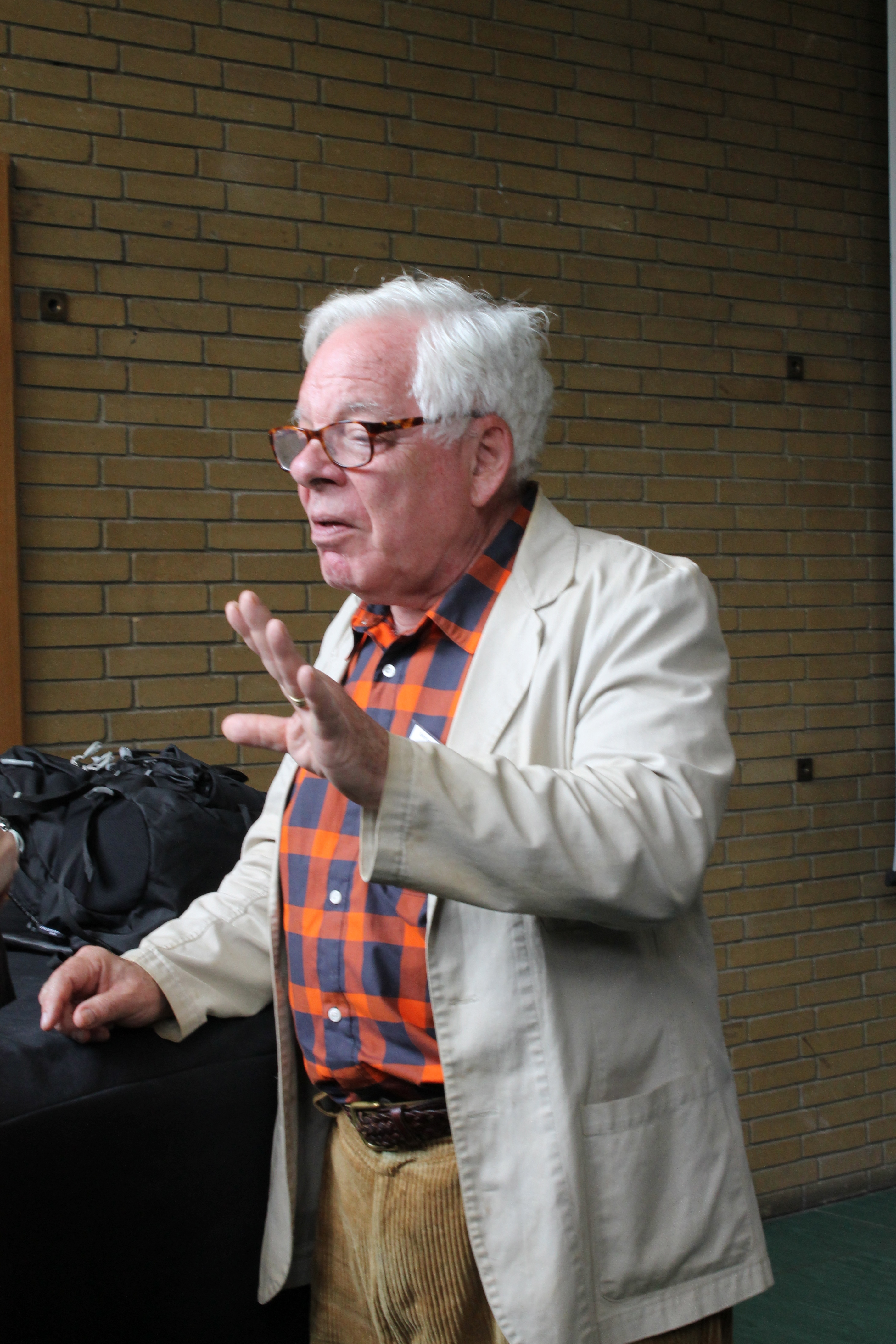 Food writer Raymond Sokolov at the Oxford Symposium on Food and Cookery, 2012.